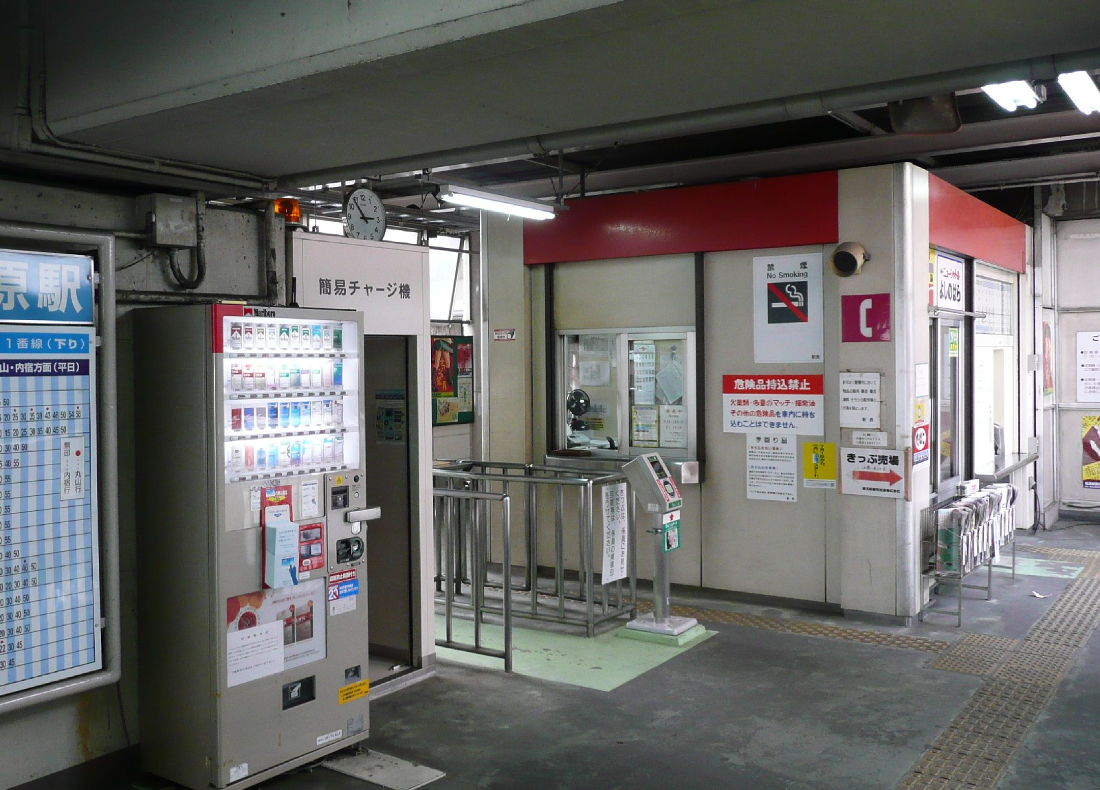 Yoshinohara Station ticket gate